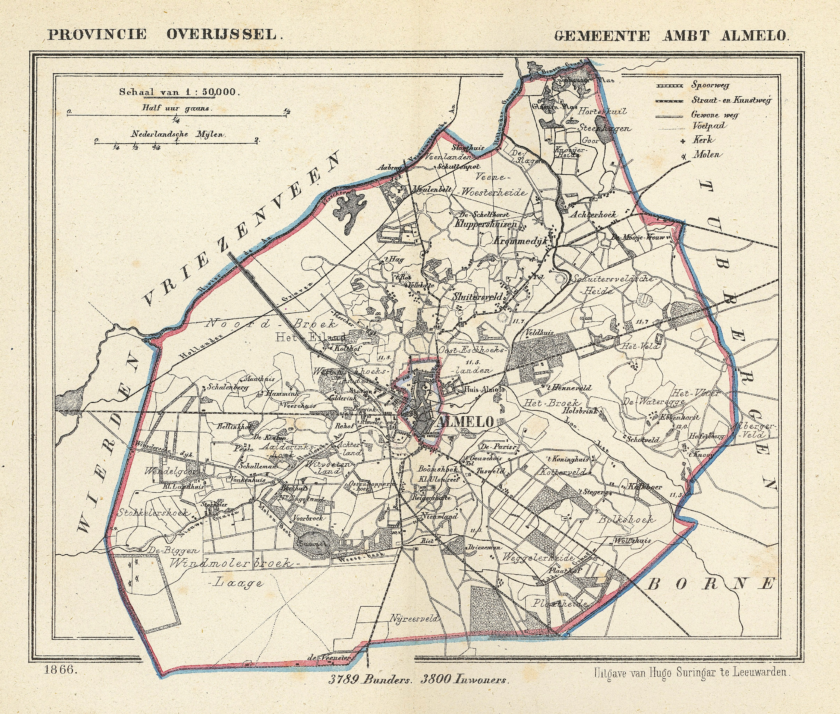 Between 1818 and 1914 the municipality of Almelo (Province Overijssel, Netherlands) was subdivided into two parts: the city itself, and the surrounding rural area called "ambt". In this map of 1866 the town of Almelo is shown as an 'island' in the centre of its "ambt".